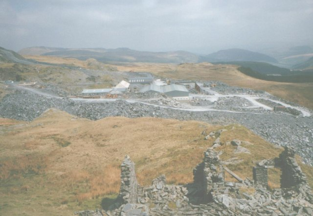 Buildings at Manod Quarry These buildings are on the site of the small Manod Quarry, but mainly handle slate quarried by opencast operations at nearby Graig-ddu Quarry SH7245